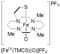 png version of Fe4TMCSOPF6.svg